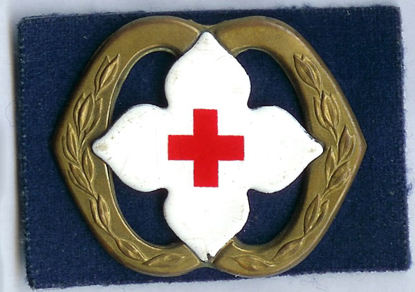 Dutch cap badge from the Medical Corps (1st model) 1947-1951